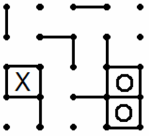 The board game dots and boxes